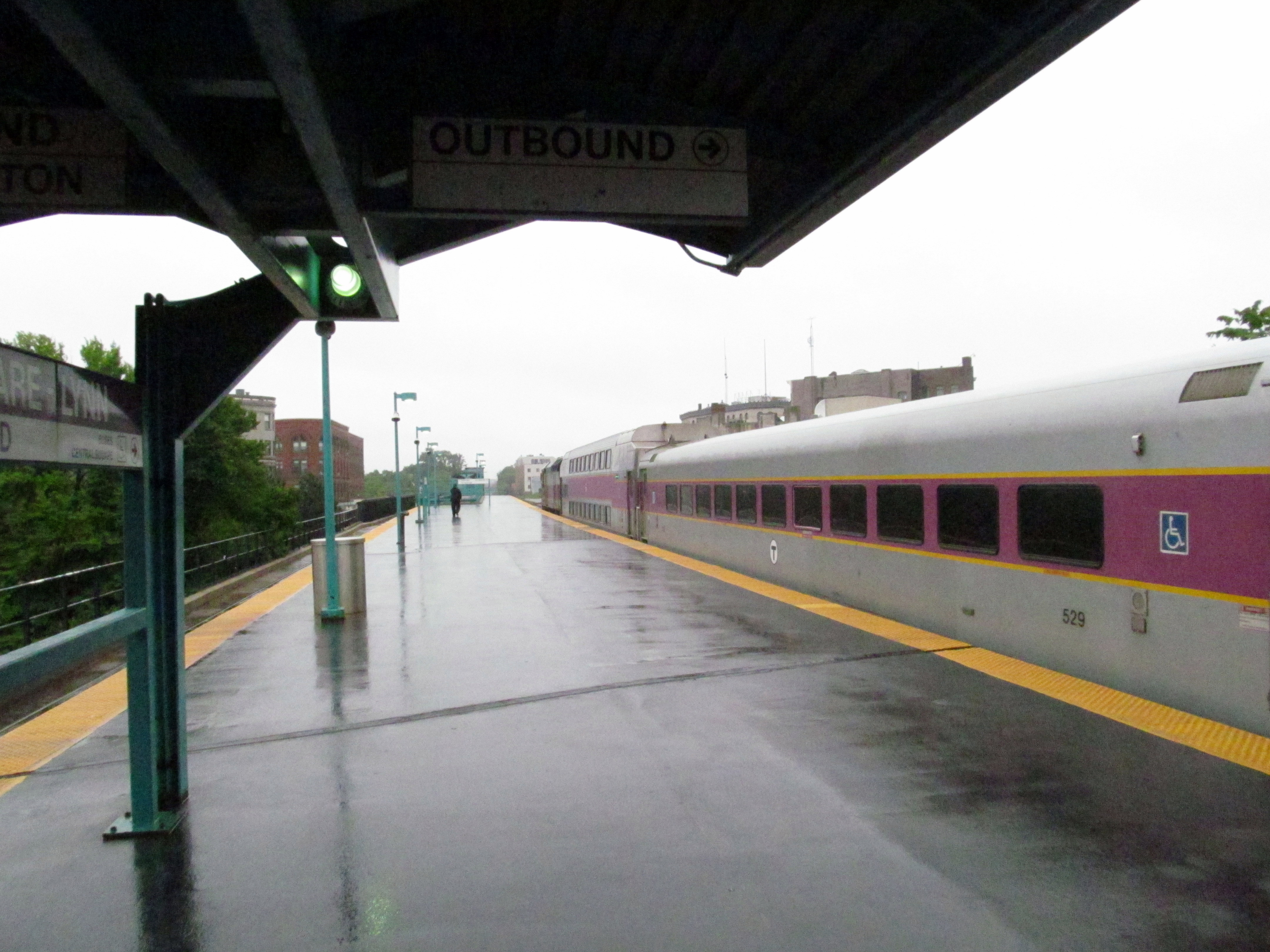 An outbound MBTA train at Lynn station